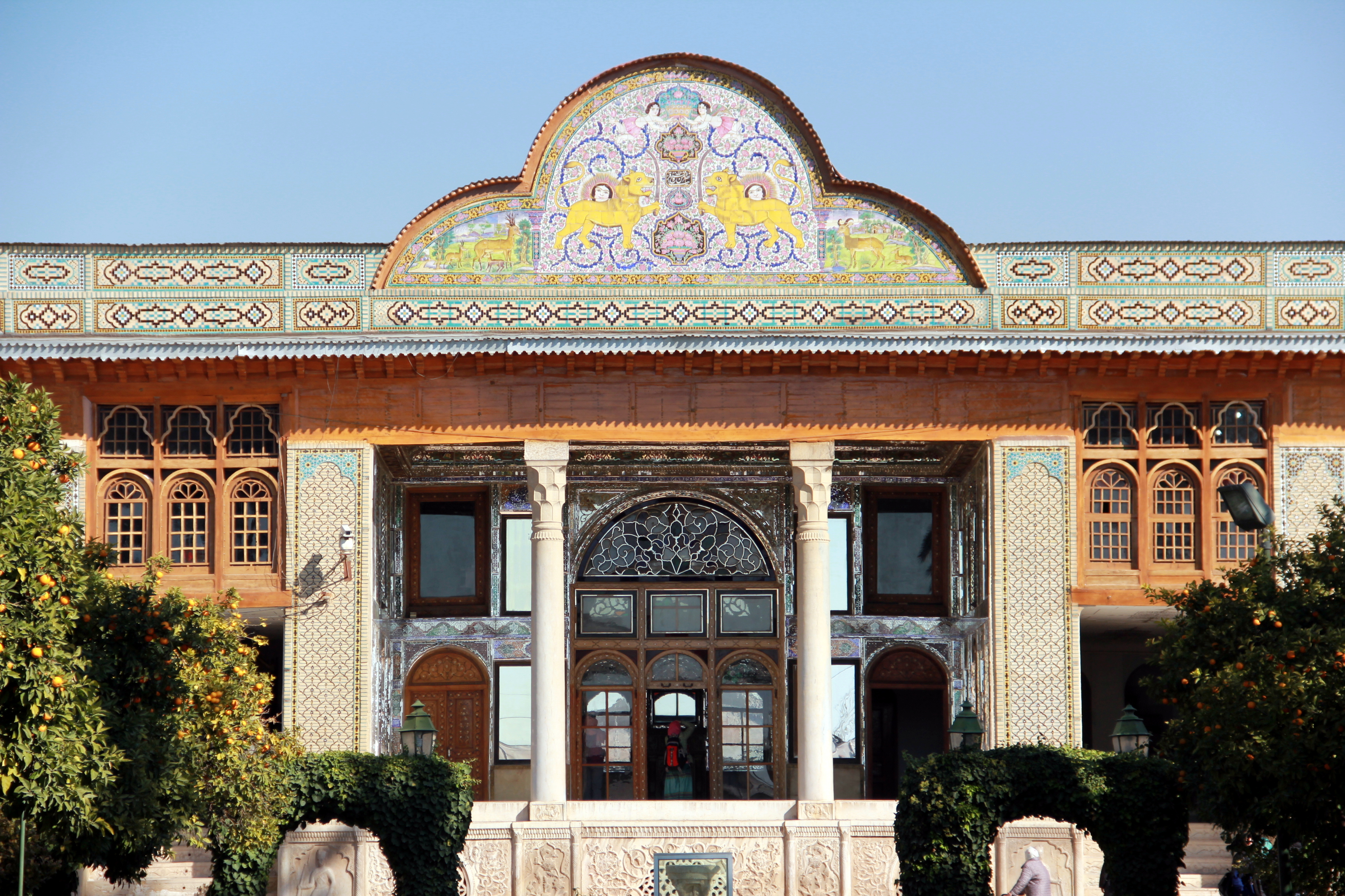 Qavam House